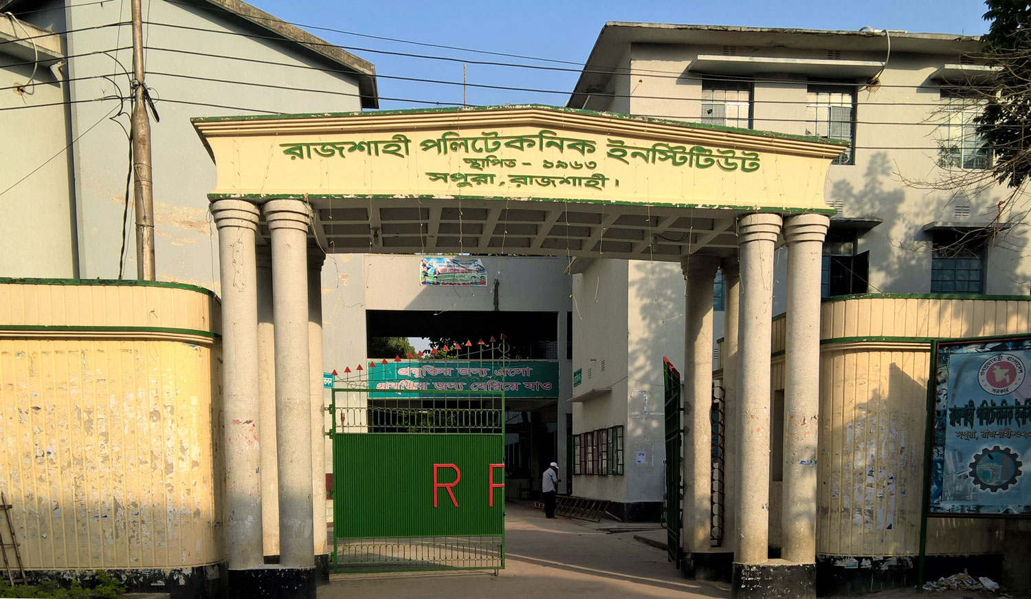 Rajshahi Polytechnic Institute is the Modern Polytechnic Institute in Bangladesh. It is the only one Mid level Engineering Institution in Rajshahi.